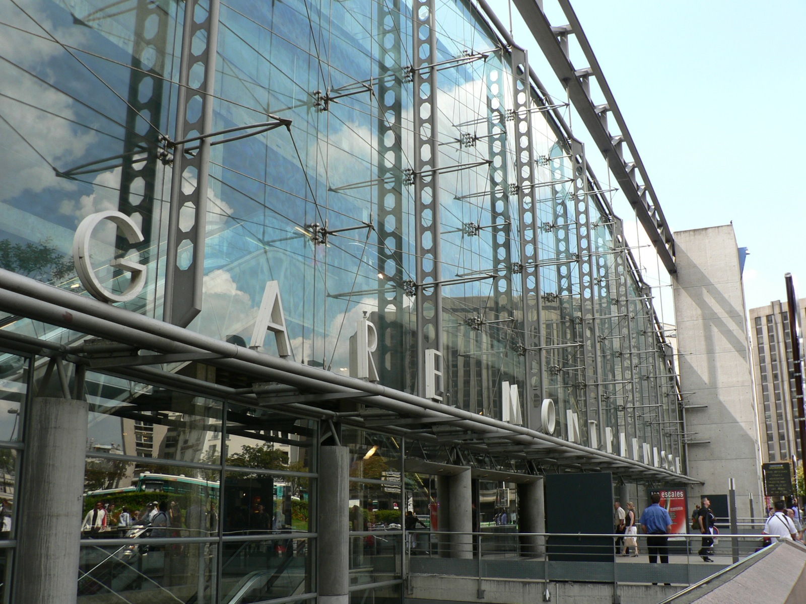 Gare Montparnasse railway station in Paris, view of the glass facade (Porte Océane).